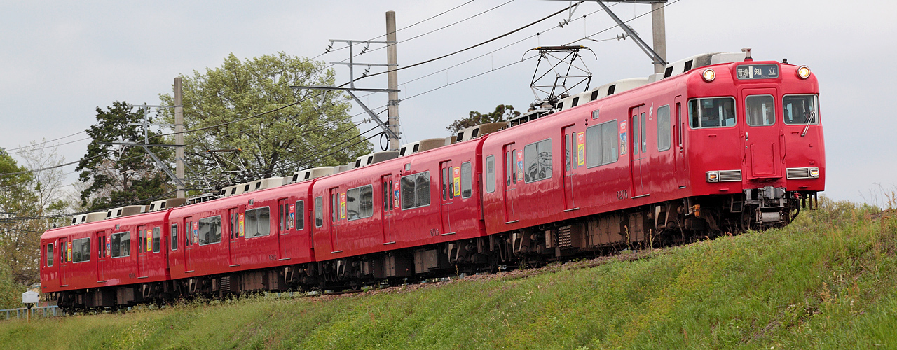 Meitetsu 6000 series EMU ( 6016F ), between Hiratobashi Sta. and Koshido Sta.